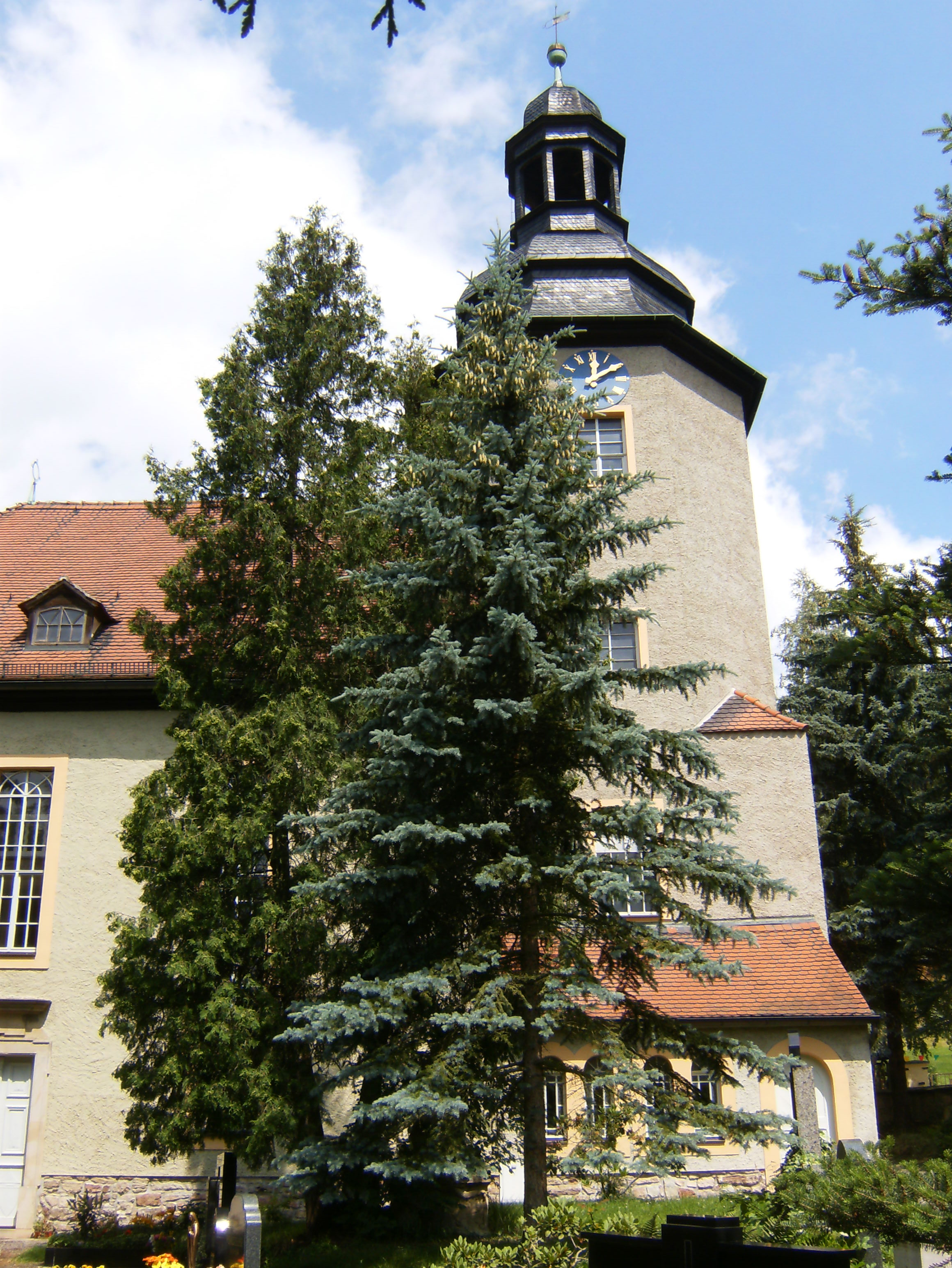 Gera Frankenthal, village church.